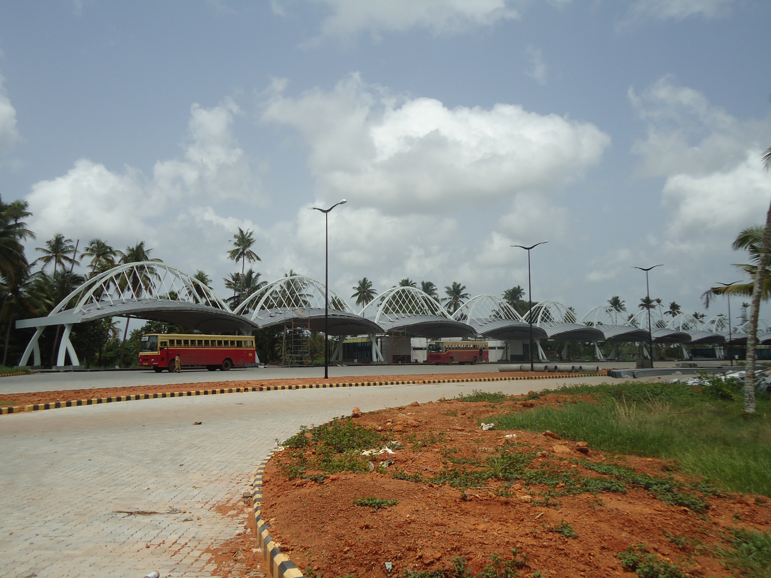 Vyttila Mobility Hub Kochi